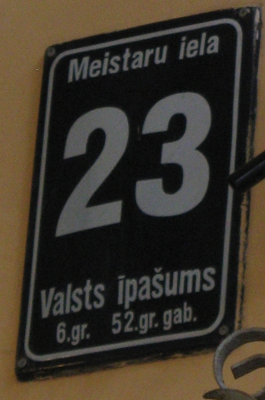 A plaque marking state property in Riga. In Latvian, it reads Meistaru iela 23, or Masters Street 23; Valsts īpašums, or Public property.